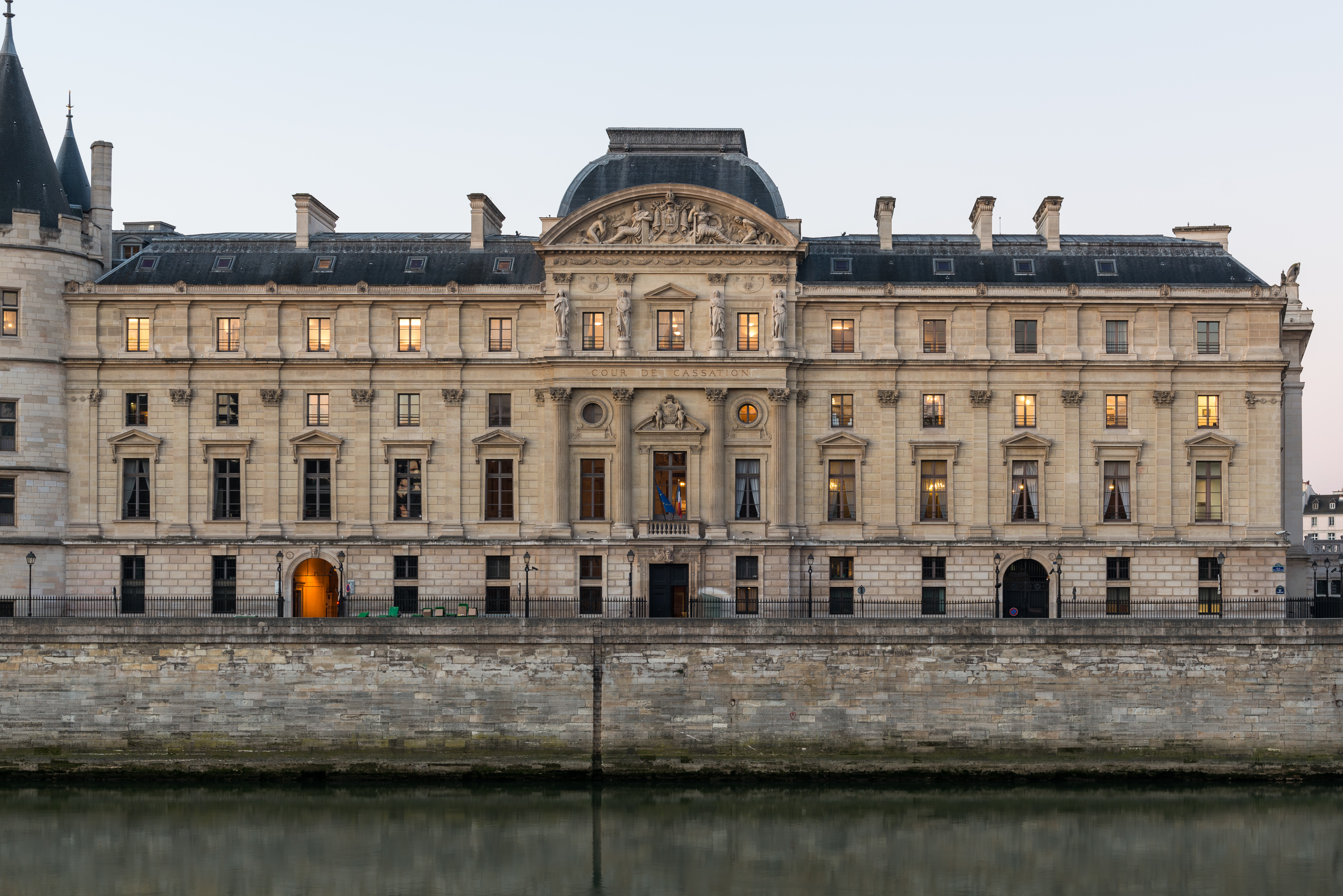 The Court of Cassation in Paris, one of France's courts of last resort.